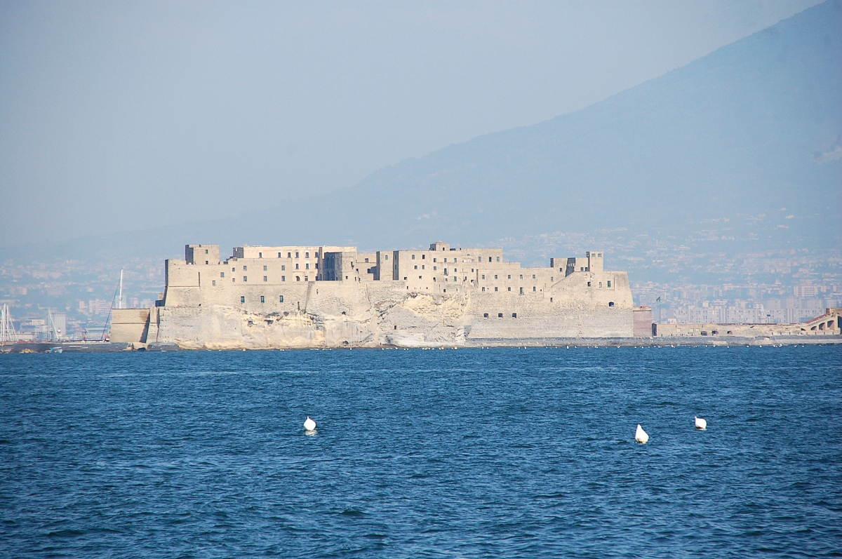 Naples 2010